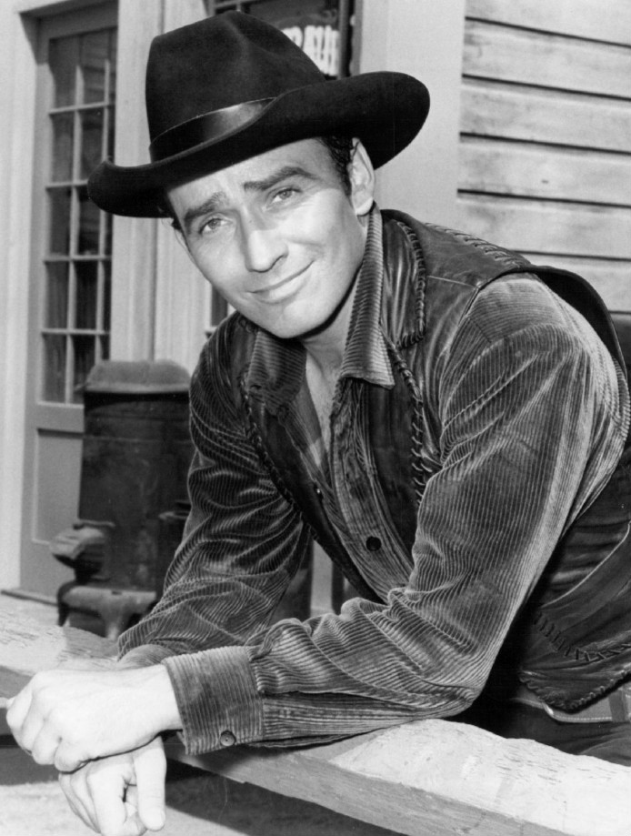 Photo of James Drury as The Virginian from the television program The Virginian, also known as The Men from Shiloh.